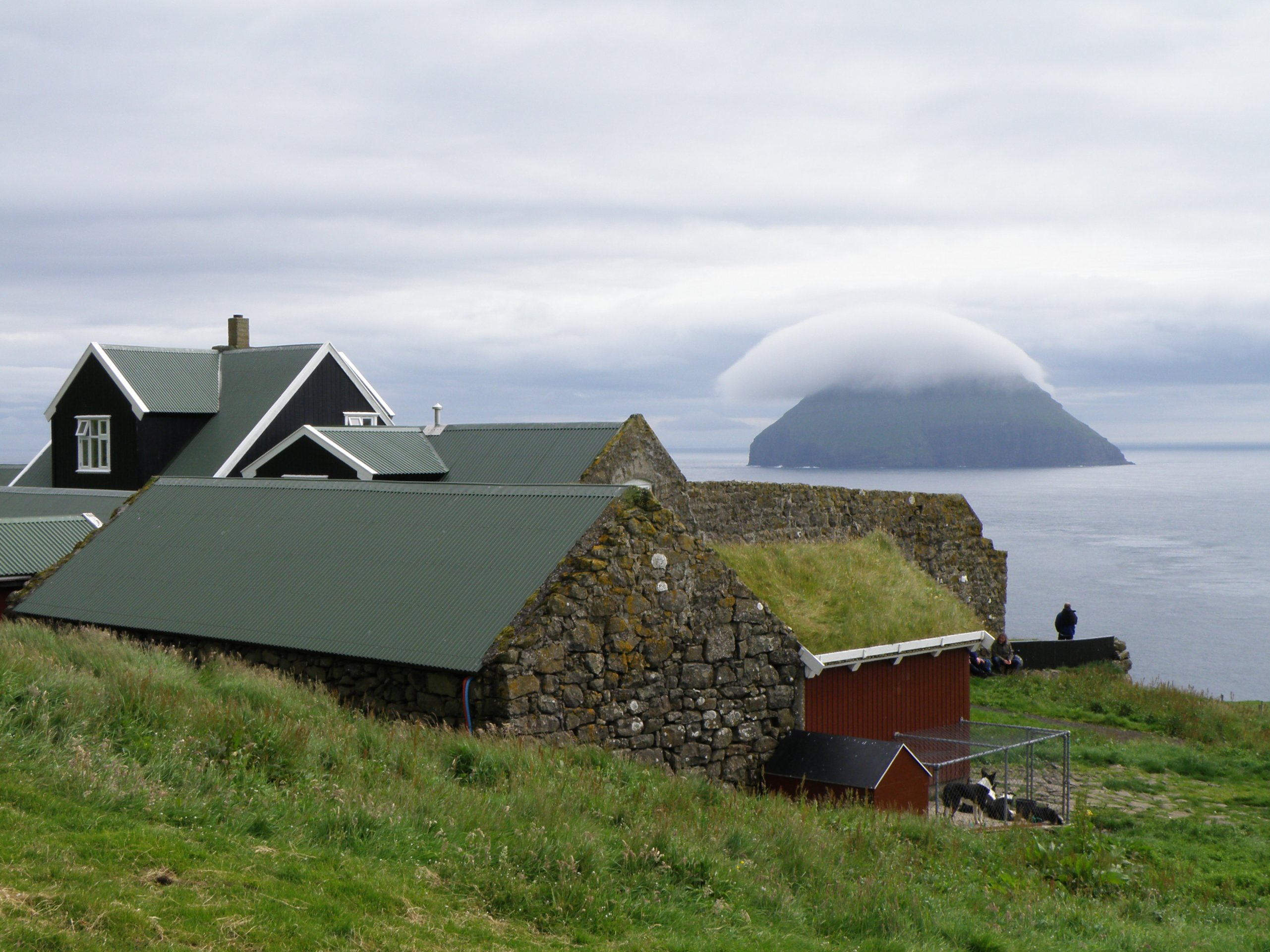 Stóra Dímun, also called just Dímun, is one of the smallest of the inhabited islands of the Faroes. The island is 2,65 km2 and 395 m high. The village is located 100 meters above sea level. In 2014 the population was 9. A school has been built there for the children who lives there, three teachers from a school in Tórshavn travel to the island one each time, in order to teach the children. The helicopter is the only option if one wants to travel to the island, except if it is only a short trip, then it can be done with Norðlýsið from Tórshavn or the schooner Thorshavn from the island Suðuroy. In the old days, before the helicopter became the transport to and from Dímun, the only way was by boat and then climbing up the very steep cliff in order to come to the village. On this photo the view is towards the other Dímun, Lítla Dímun (Small Dimun), which is not populatated.